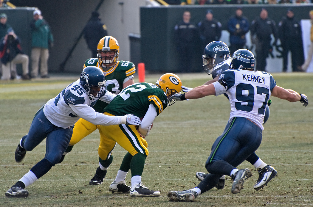 Seattle vs. Green Bay • December 27, 2009 at Lambeau Field in Green Bay, Wisconsin.